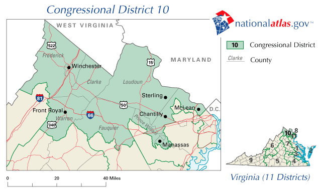 Data and information authored or produced by the USGS are in the public domain. National Atlas of the United States® and The National Atlas of the United States of America® are registered trademarks of the DOI.